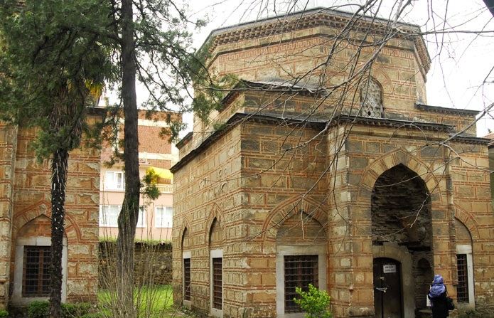 Exterior view of the mausoleum of Şirin Hatun